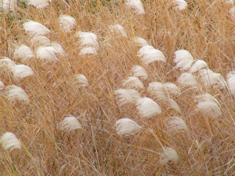 Miscanthus sacchariflorus